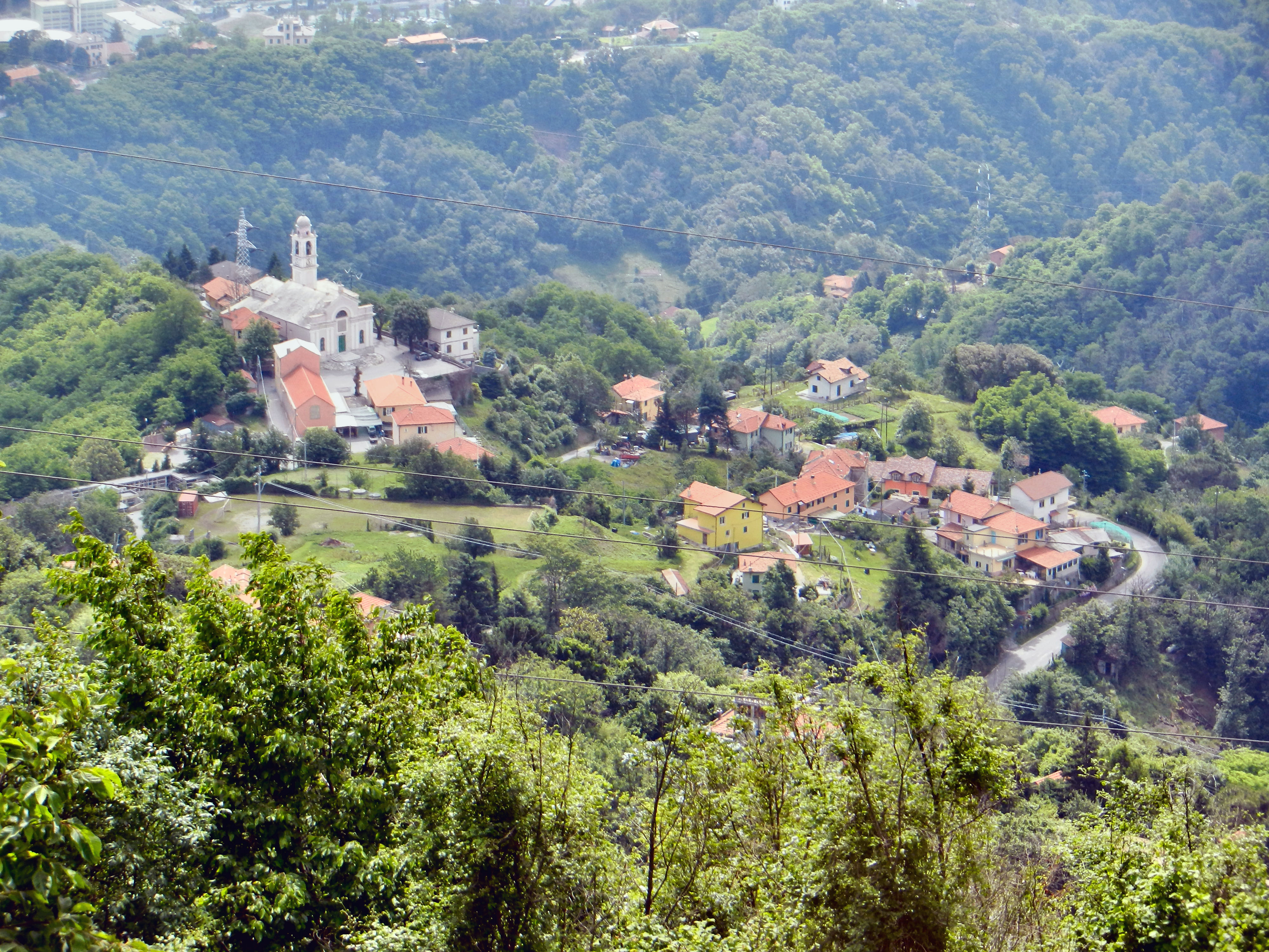 Ceranesi (province of Genoa, Italy), the village of Livellato